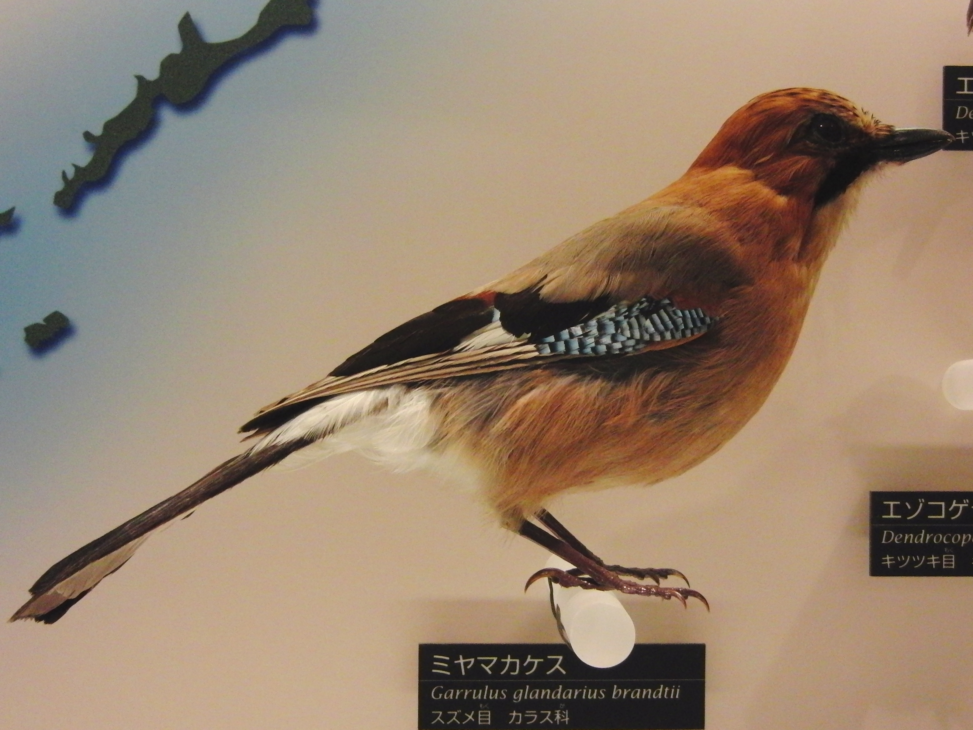 Stuffed specimen of Garrulus glandarius brandtii. Exhibit in the National Museum of Nature and Science, Tokyo, Japan.